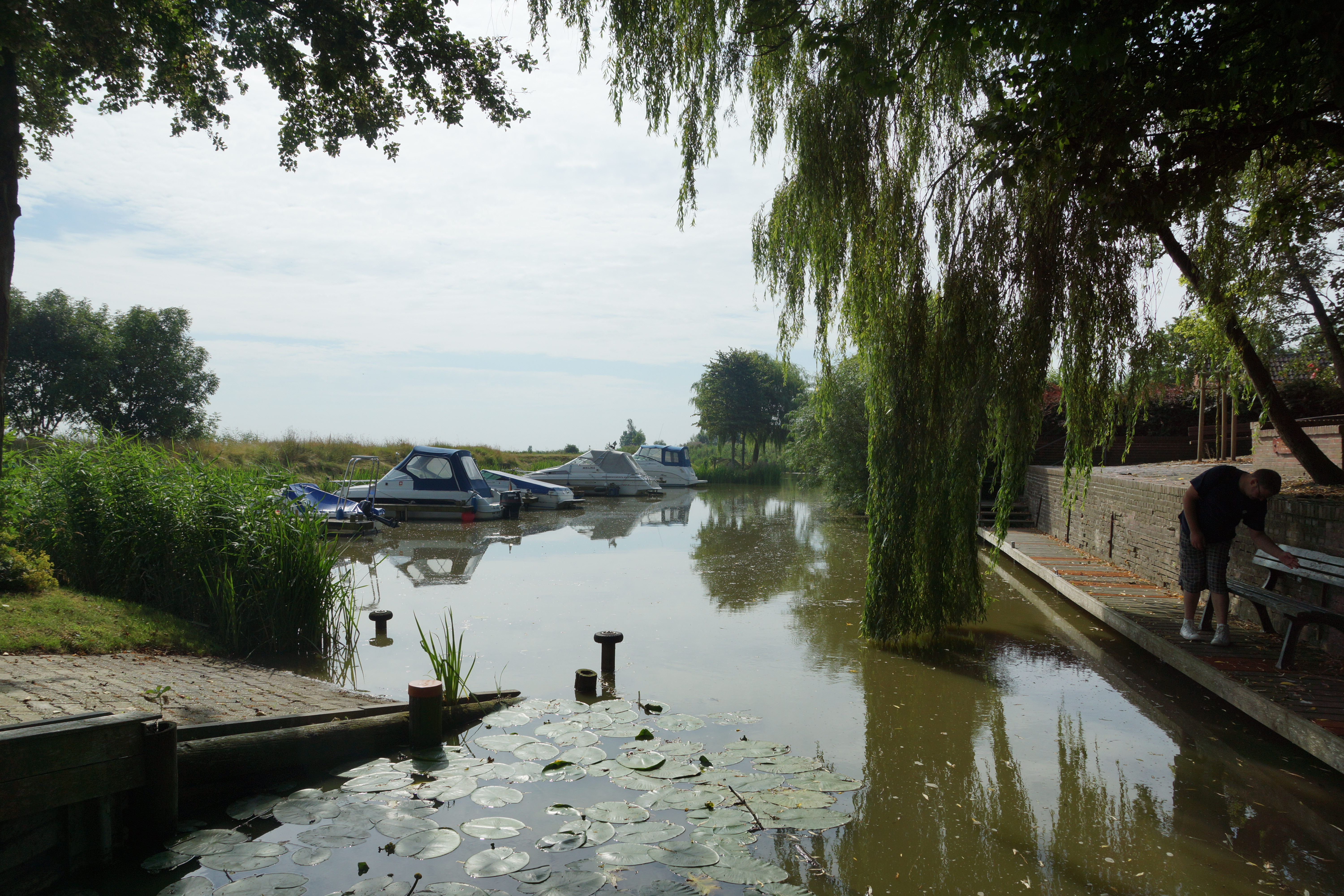 Krummhörn (Pilsum), Germany: The port